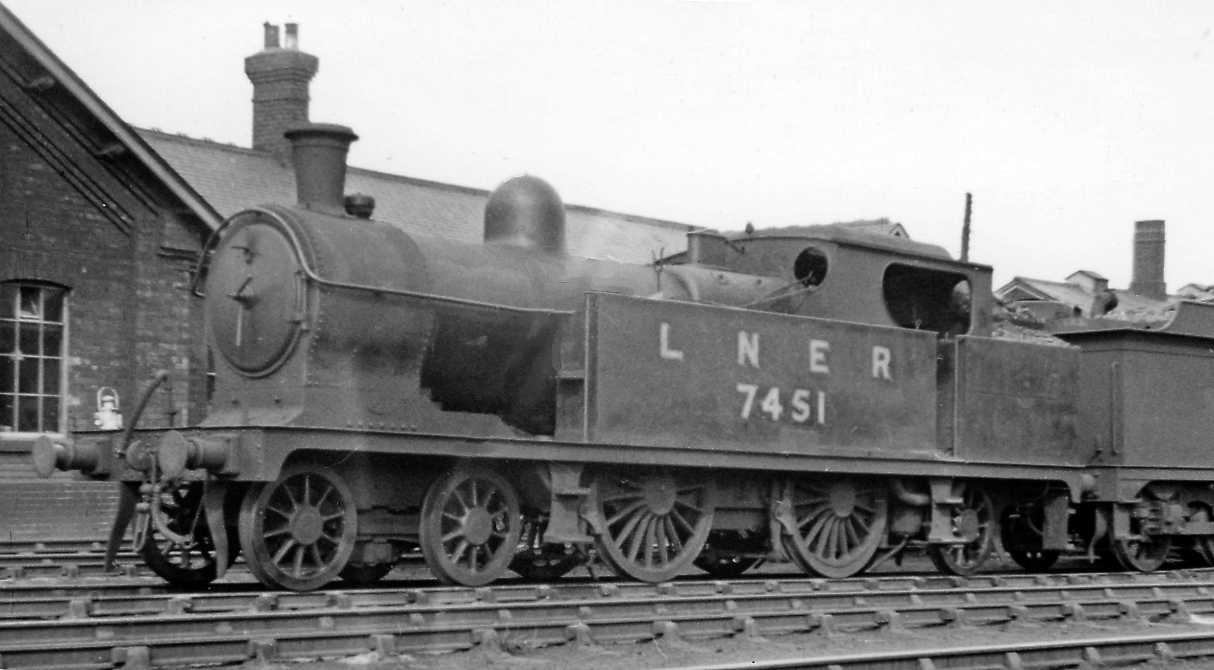 Ex-GCR Class 9L 4-4-2T at Ardsley Locomotive Depot. Ardsley Depot was a large one, with 93 locomotives in 1947, providing motive power for the busy freight and coal traffic on the ex-Great Northern lines in the area based on Lofthouse Marshalling Yard and some passenger traffic between Wakefield, Leeds and Bradford. The complement in 1947 comprised:- 7 4-6-0, 5 2-8-0 (LMS-type), 9 0-8-0, 30 0-6-0, 9 4-4-2T, 3 0-6-2T, 30 0-6-0T. No. 7451 depicted here was a Robinson C14 4-4-2T.